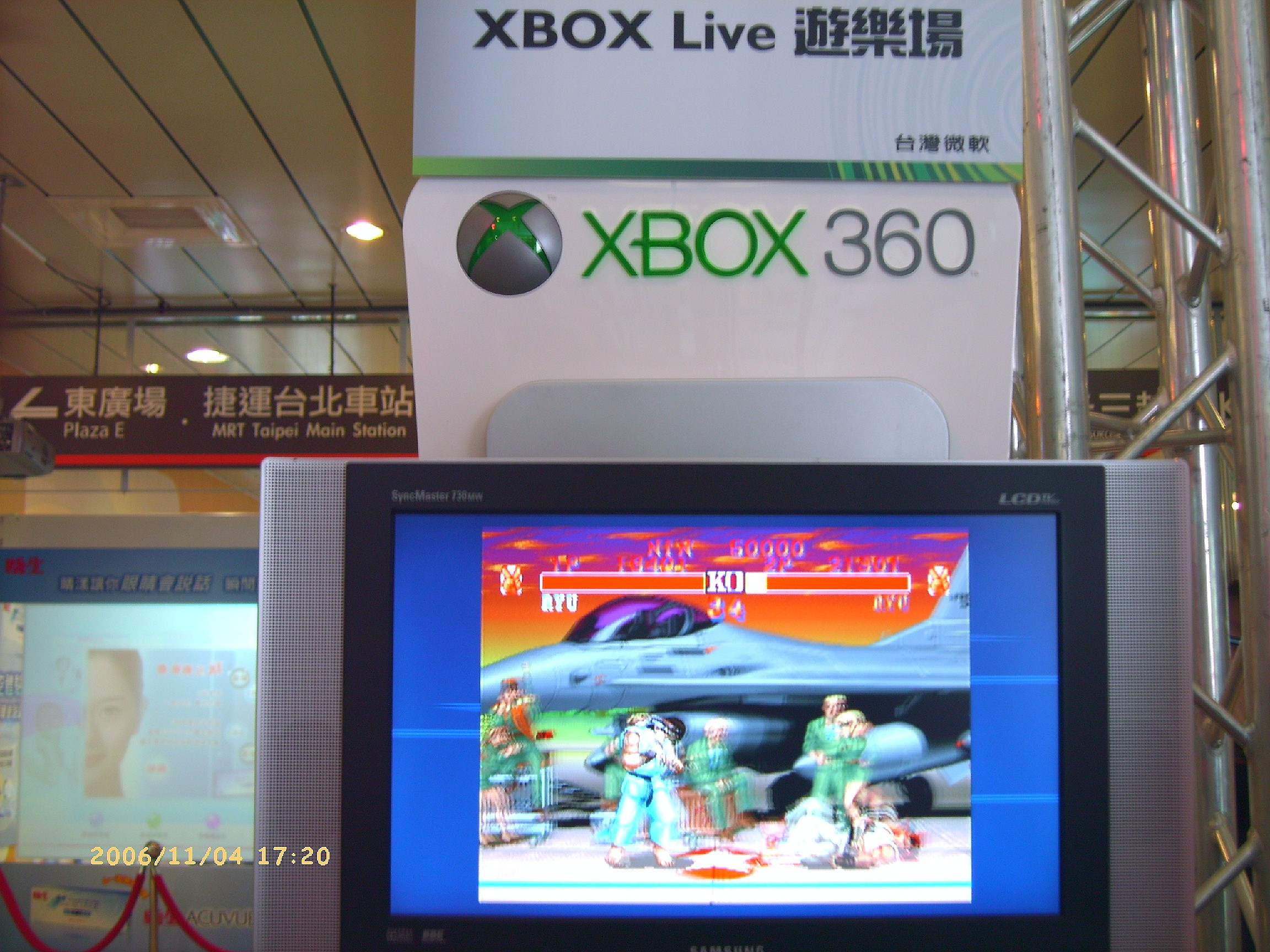 XBOX Live Arcade also provide classic game "Street Fighter".